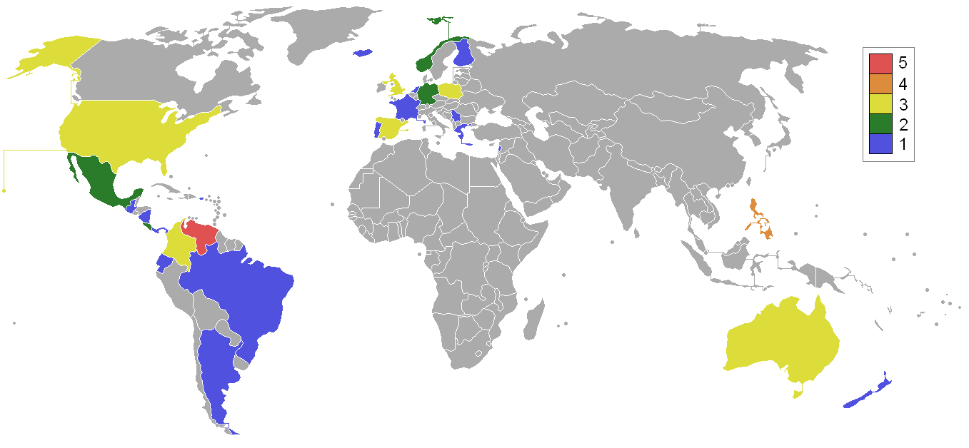 Map of Miss international